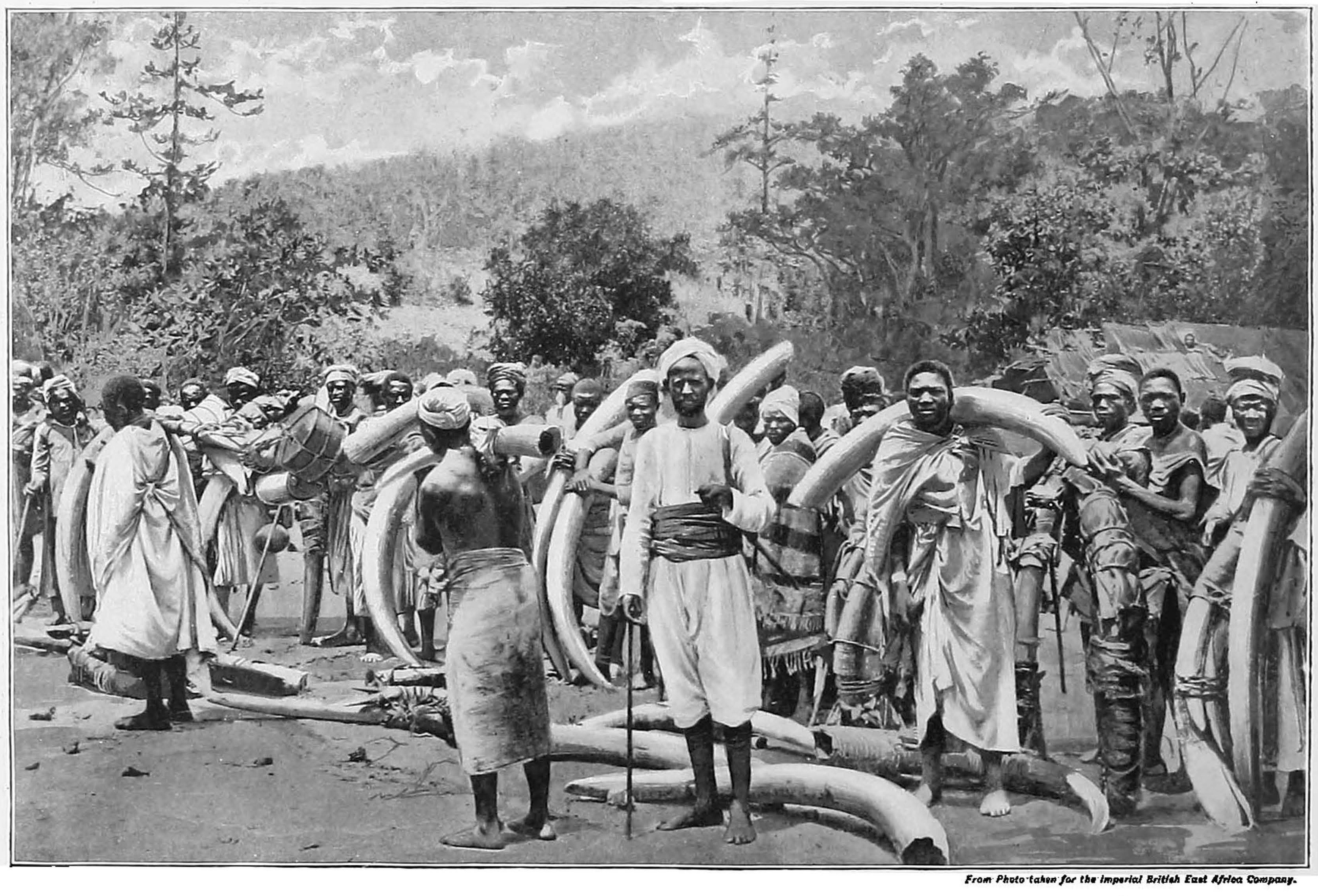 IVORY. It is sad to think that the world's supply of that beautiful product, true ivory, is rapidly and visibly diminishing. The reckless slaughter of the African elephant which has gone on for years past, has diminished the herds, and in many cases led to their extinction. Tardy efforts are now being made to preserve the elephants in some parts of the African Continent, but the relief has come almost too late. We here see a caravan bringing down to the coast a portion of the ivory collected by the well known African soldier and explorer. Colonel Lugard. The leader of the caravan is a famous man in his way. His name is Dualler, and he is well known on the great caravan routes for bis boldness and energy.